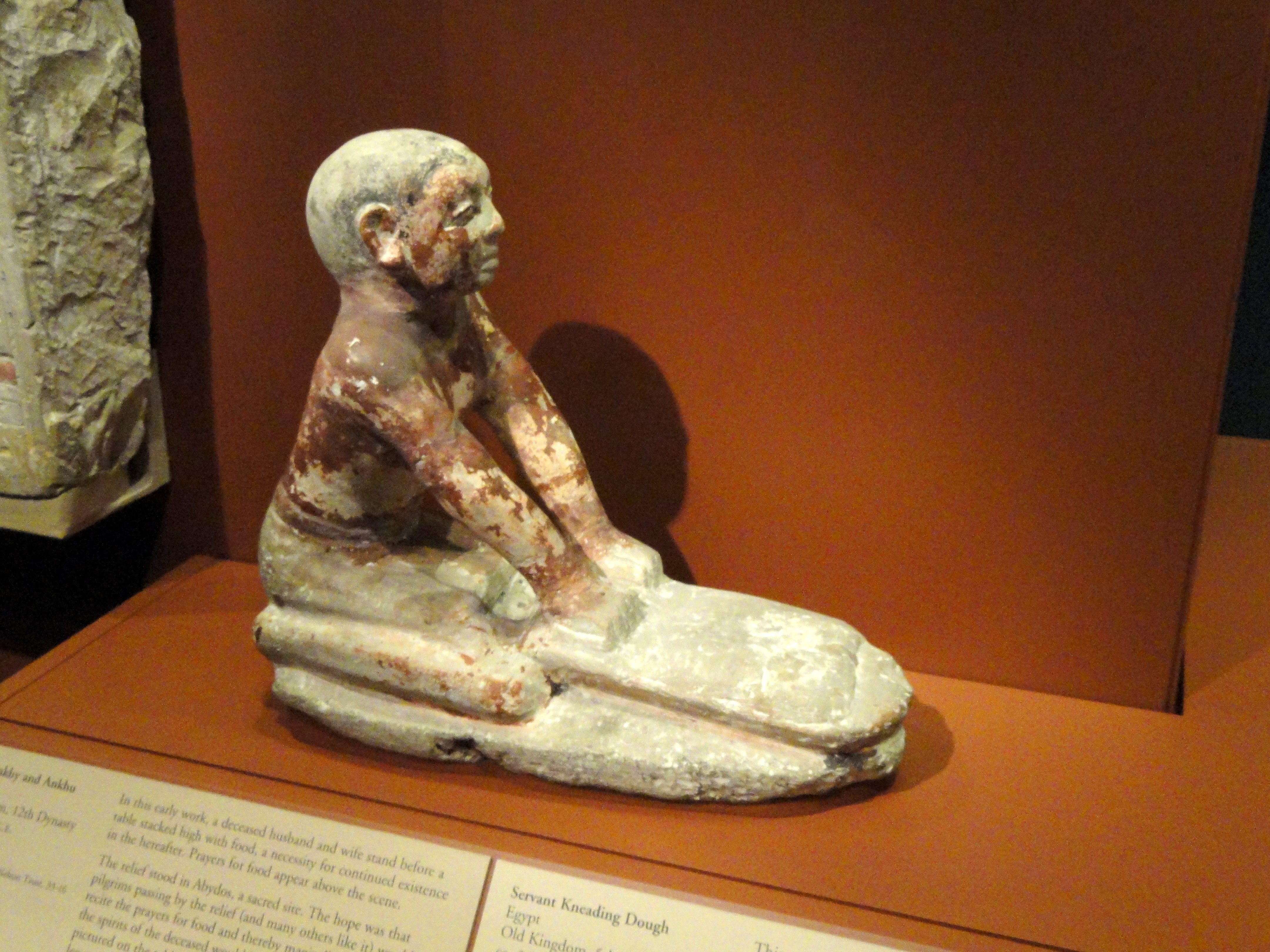 Exhibit in the Nelson-Atkins Museum of Art, Kansas City, Missouri, USA. ; I took this photograph and release it into the public domain.